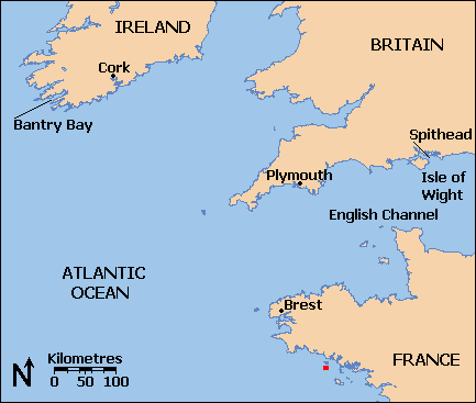 Map with red dot showing the location of the Battle of Groix off the coast of France southeast of Brest.